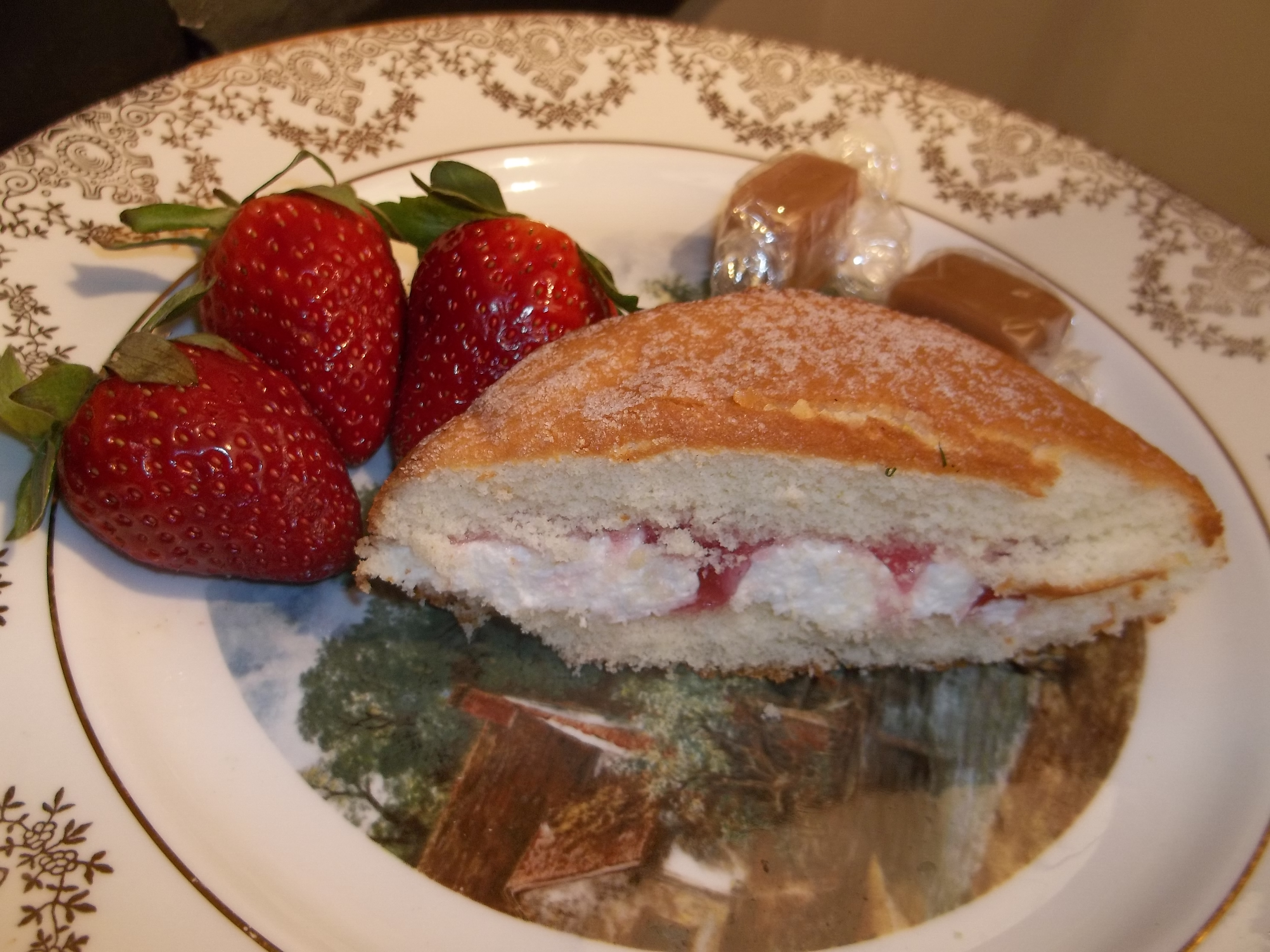 Victoria sandwich